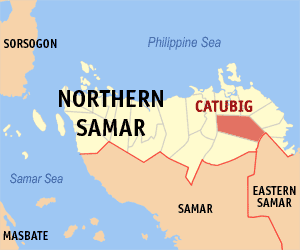 Map of Northern Samar showing the location of Catubig